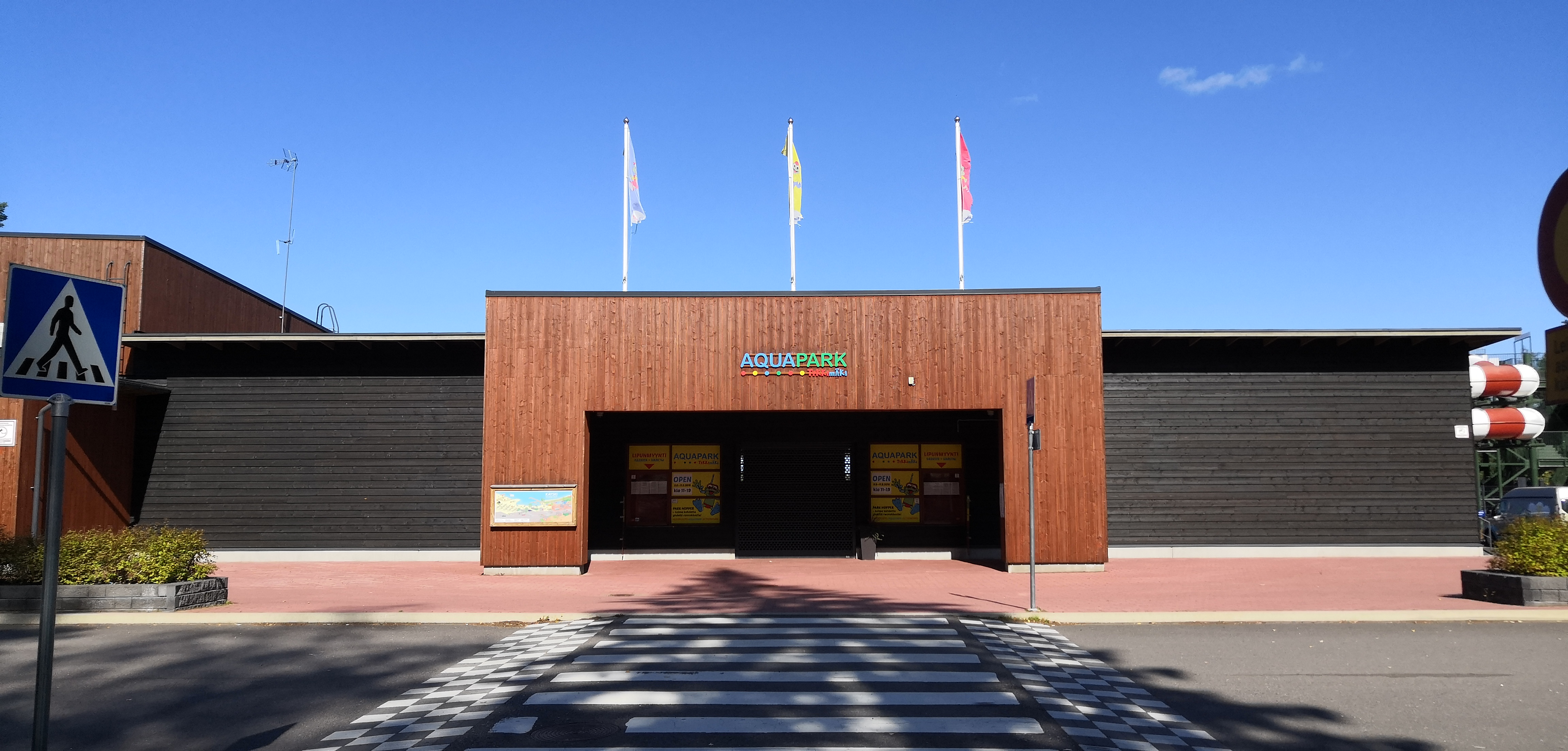 Tykkimäki Aquapark:n sisäänkäynti (elokuu 2019)